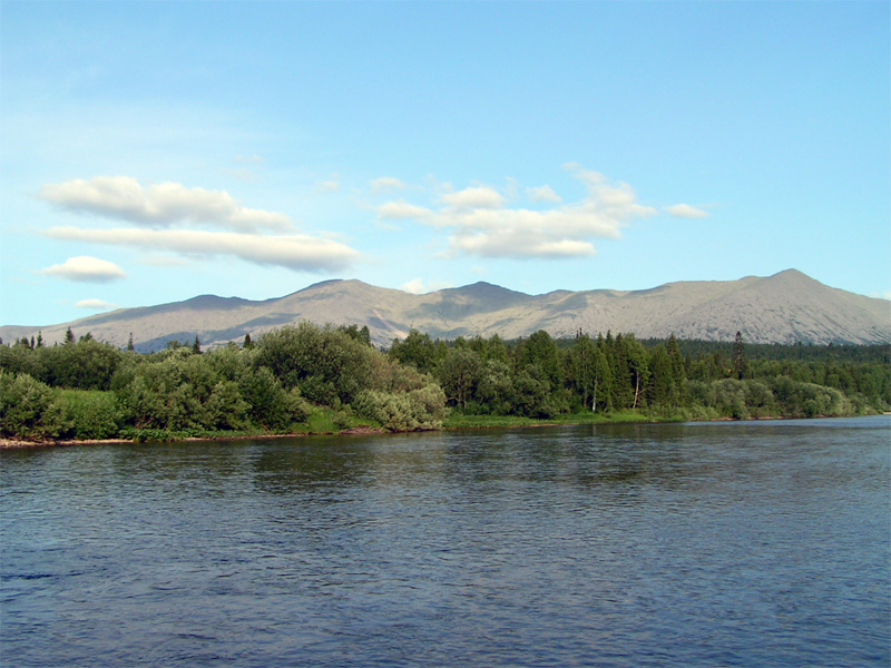 Upper course of river Vishera. View to left coast.